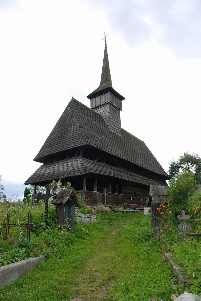 Wooden church in Săliştea de Sus